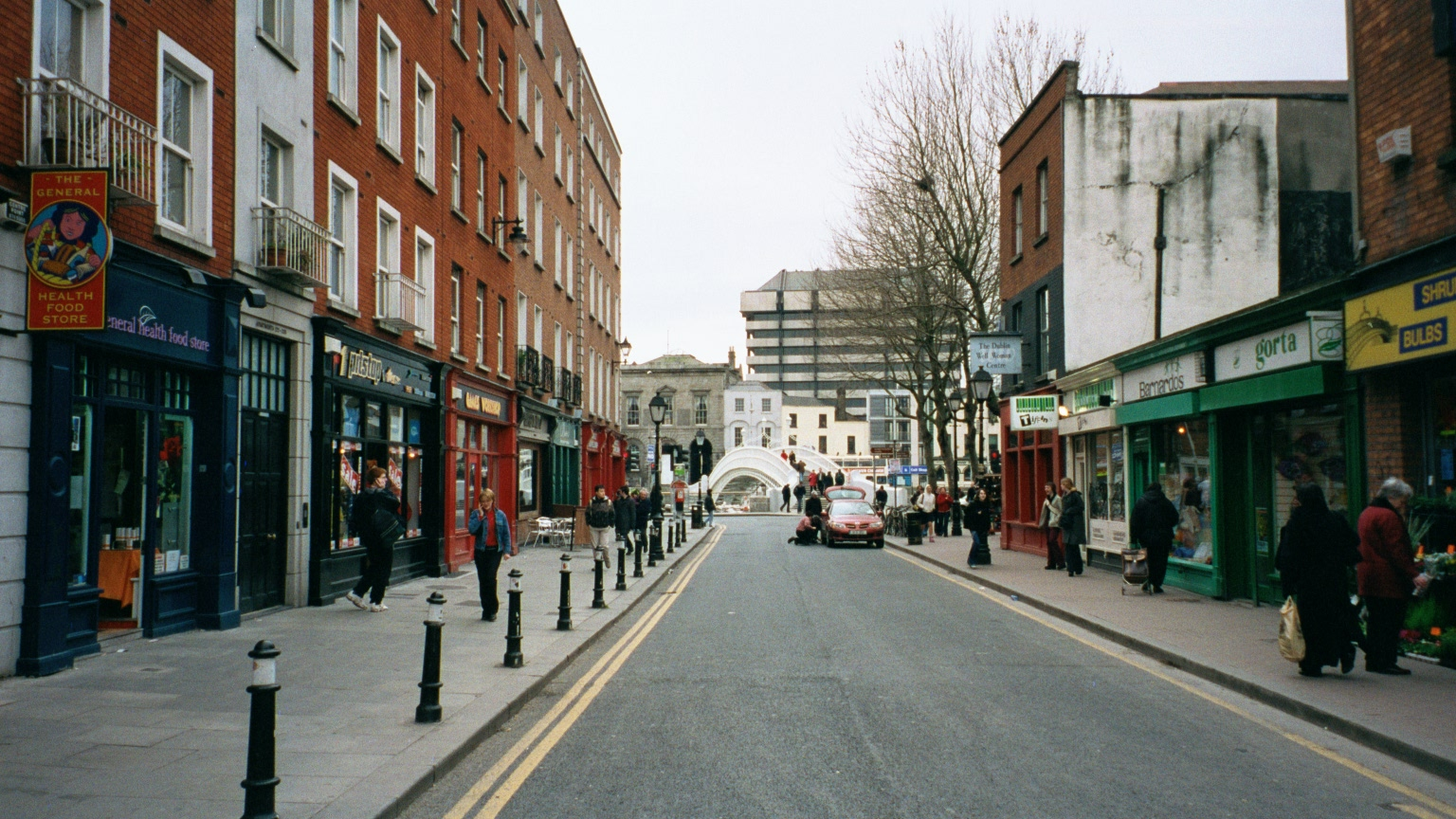 Ha'penny bridge, Dublin. Image taken from Liffey Street/Northside view.